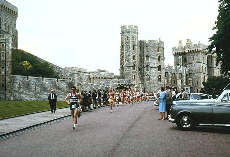 Runners leave Windsor Castle after the start of the 1967 Polytechnic Marathon. The winner was Fergus Murray of Oxford University AC.